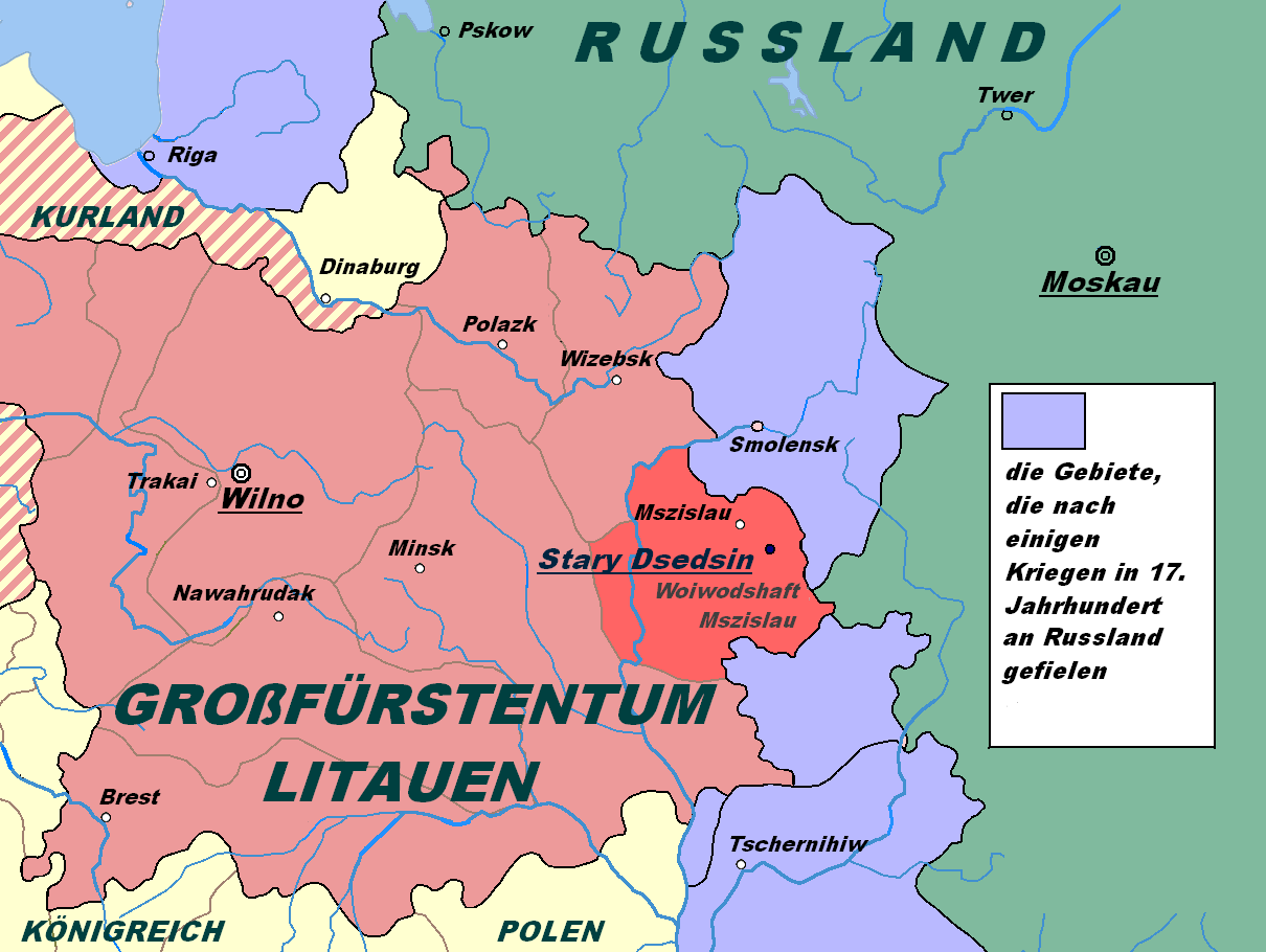 This image shows the location of the village Stary Dzedzin on the political map of the 17th century.